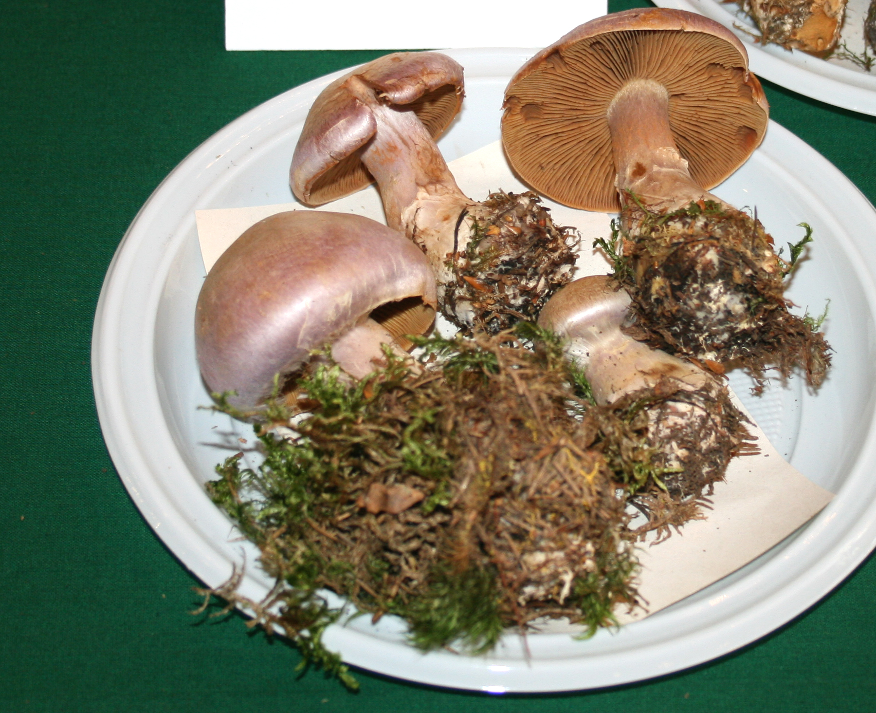 Cortinarius traganus on Prague international mushroom exhibition 2008, Czech Republic